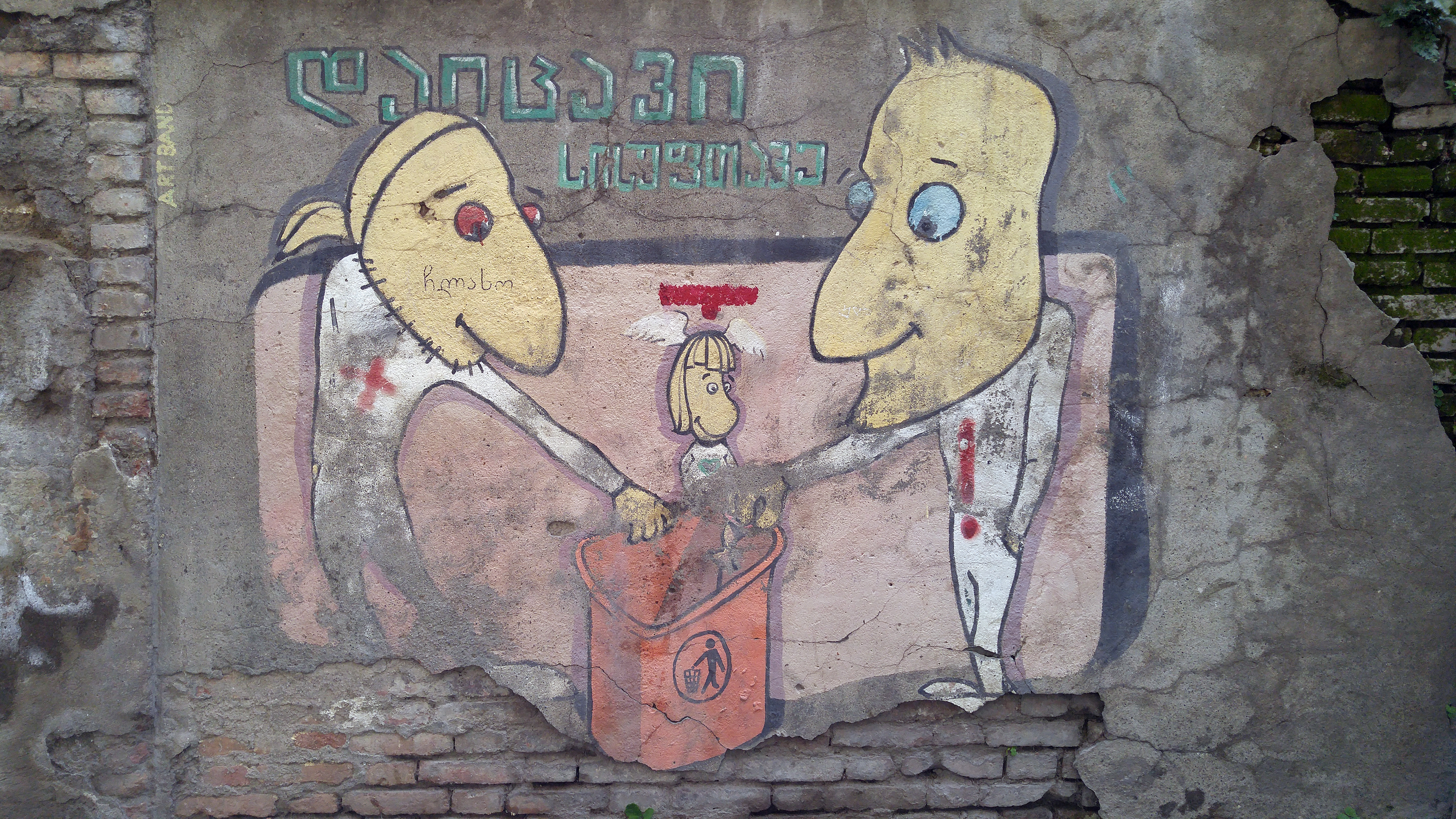 Graffiti (plural of graffito: "a graffito", but "these graffiti") are writing or drawings that have been scribbled, scratched, or painted illicitly on a wall or other surface, often within public view.